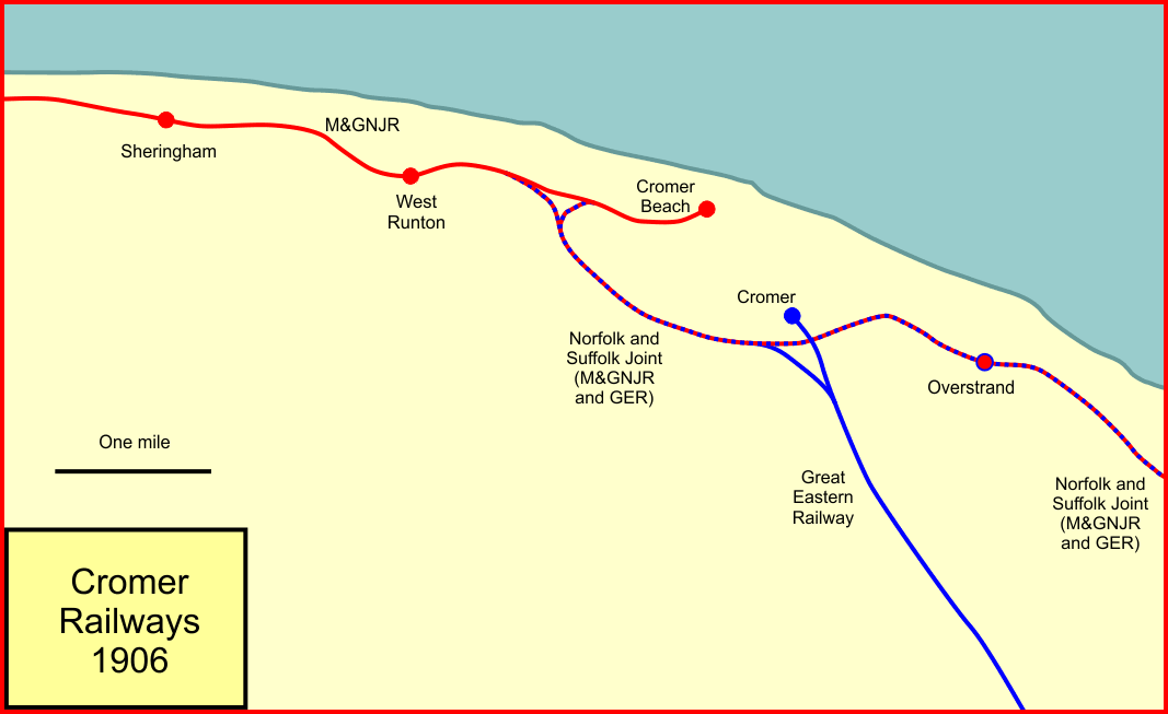 Railways near Cromer, England in 1906